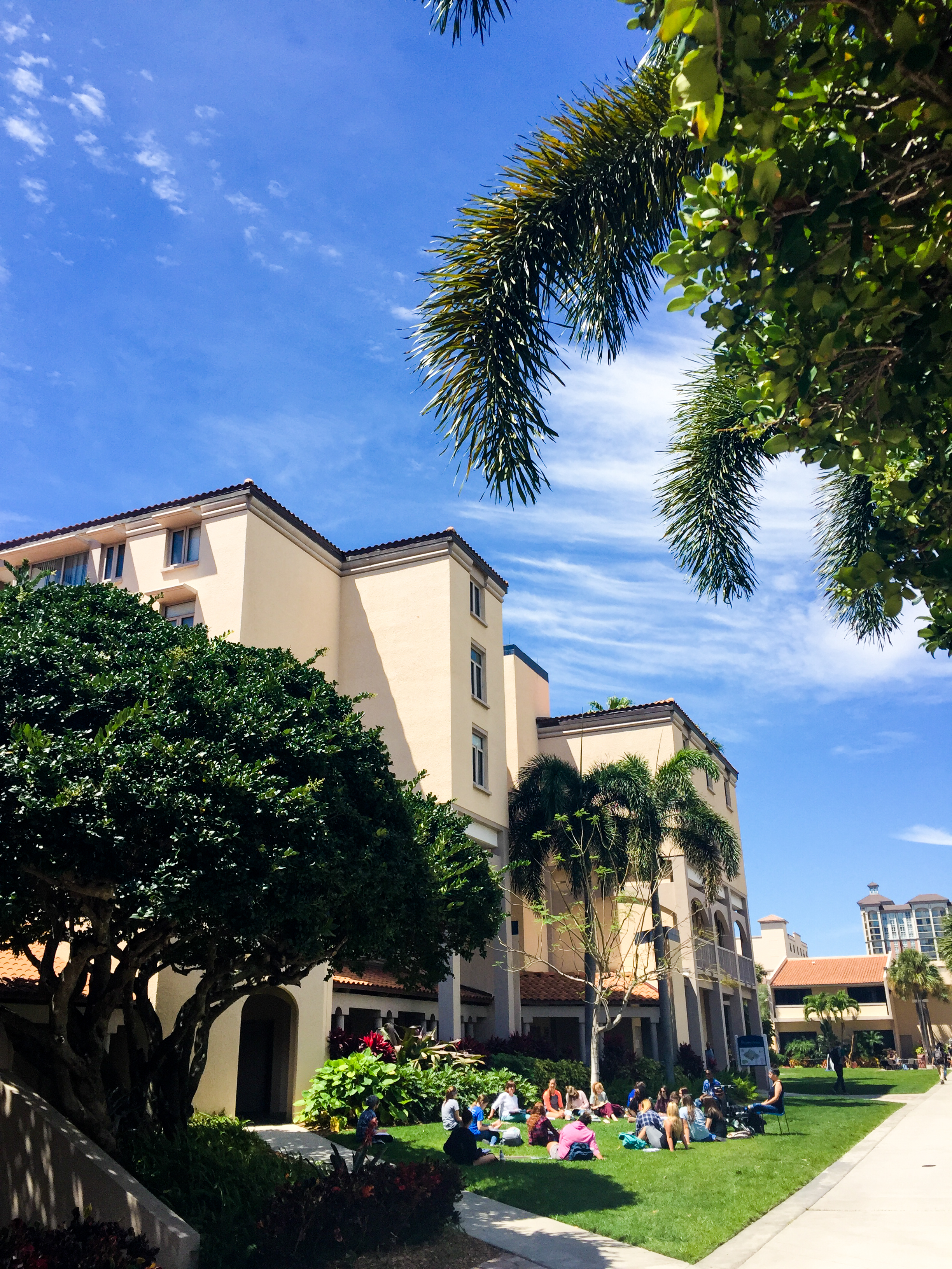 Palm Beach Atlantic University